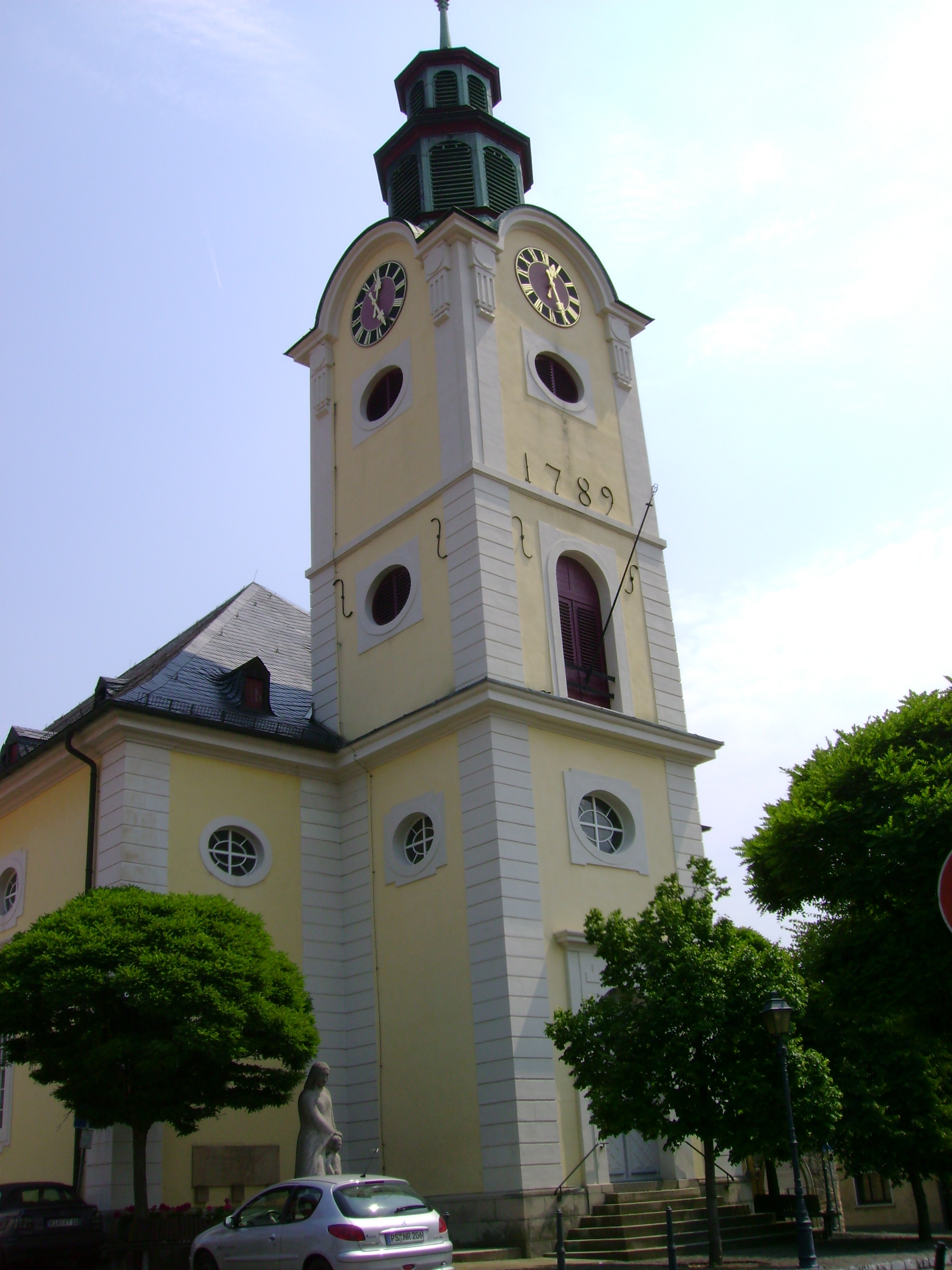 Protestant Church in Obermoschel, Germany.